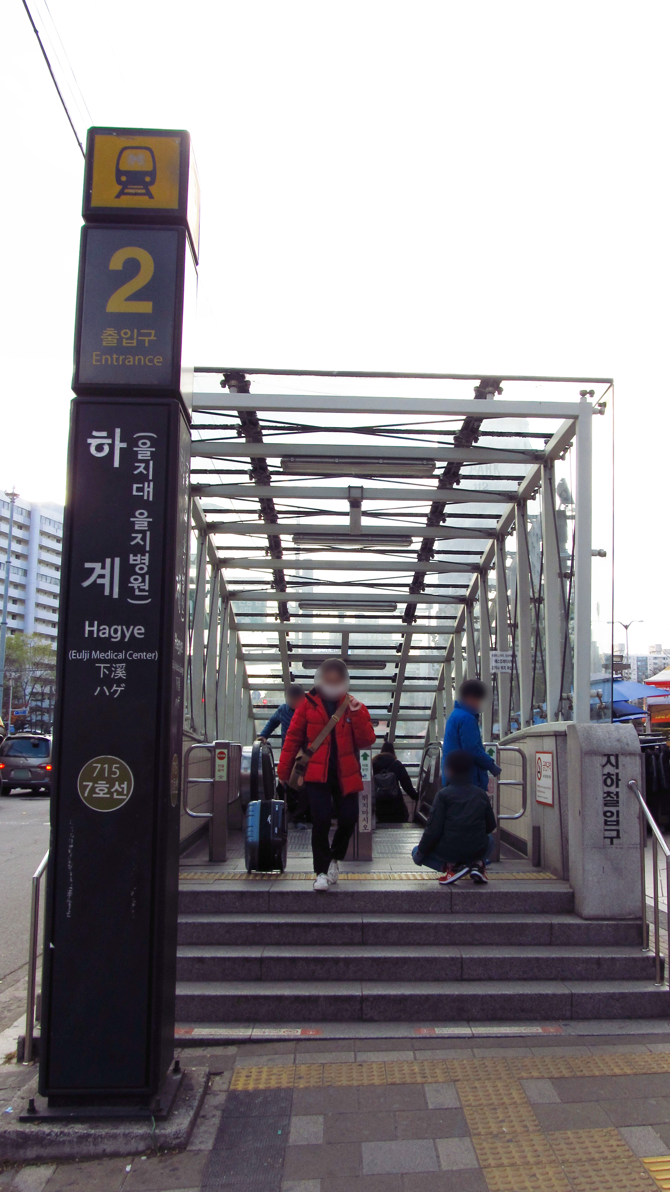 The no.2 entrance to Hagye Station on Seoul Subway Line 7 in Nowon-gu, Seoul, Republic of Korea(South Korea)